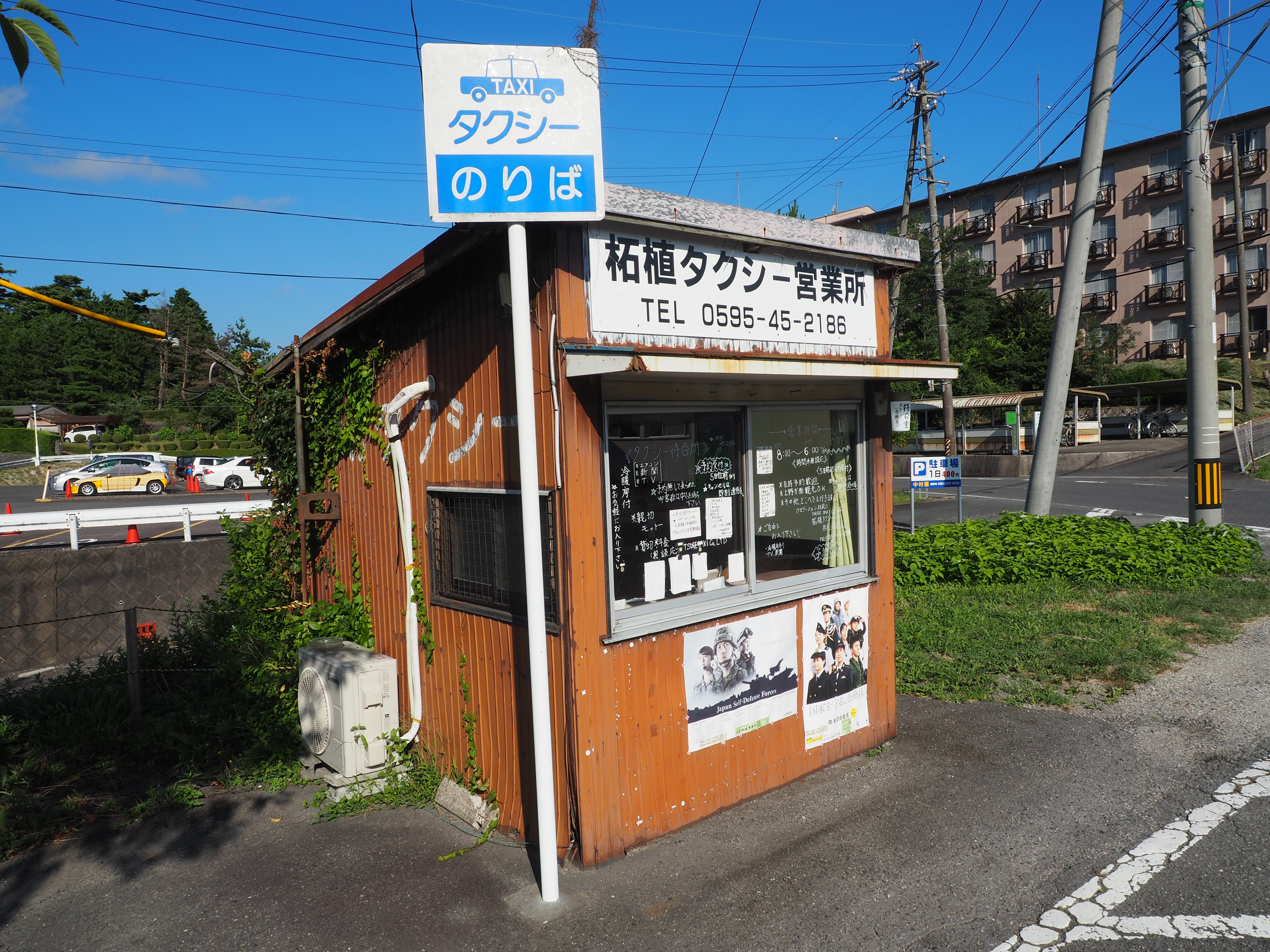 Tsuge taxi hut, Igacity, Mie pref, Japan